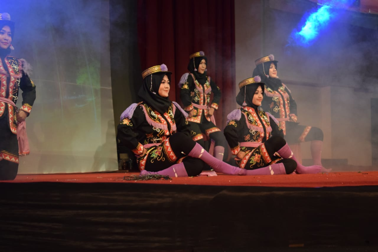 Tari tradisional asli saka Kabupaten Purworejo